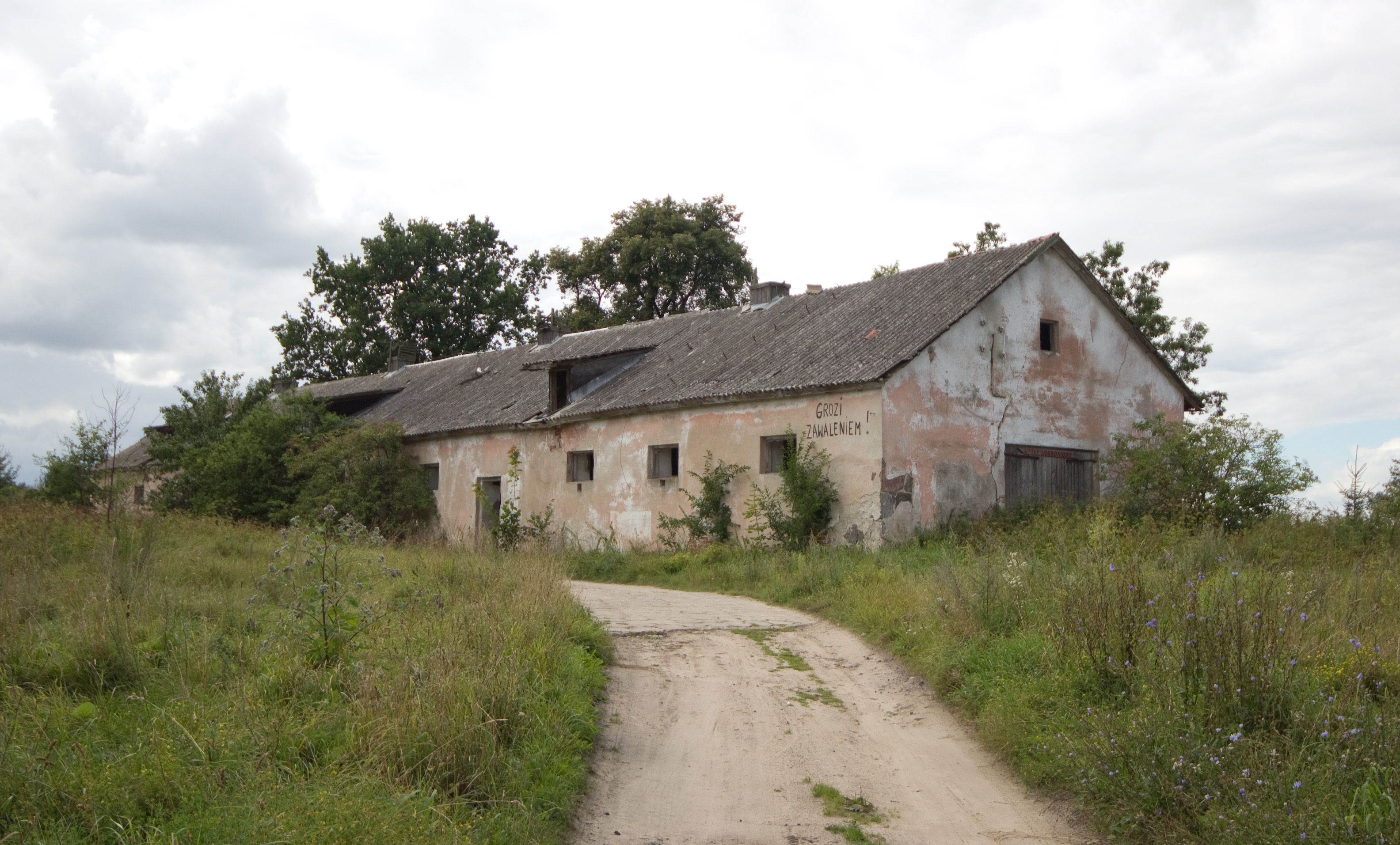 Manor house, Stachowizna, gmina Kętrzyn, powiat kętrzyński, Warmian-Masurian Voivodeship